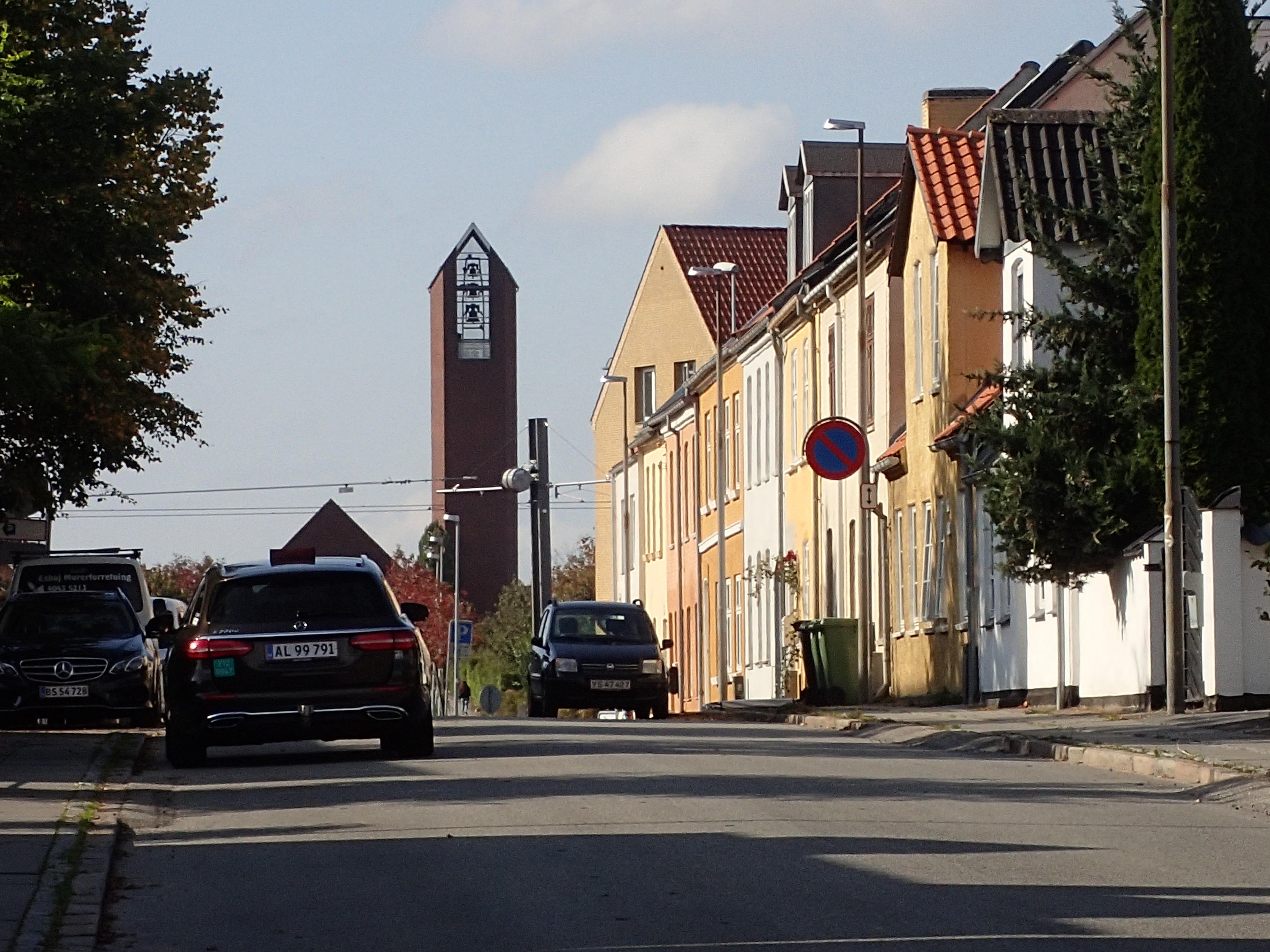 Skovvangsvej